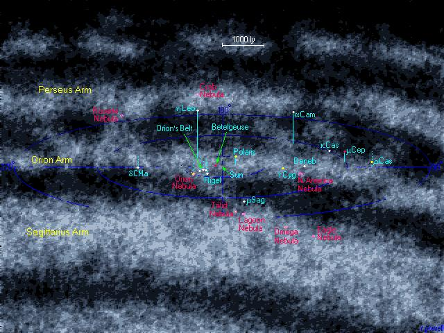 Map of the Orion Arm of the Milky Way